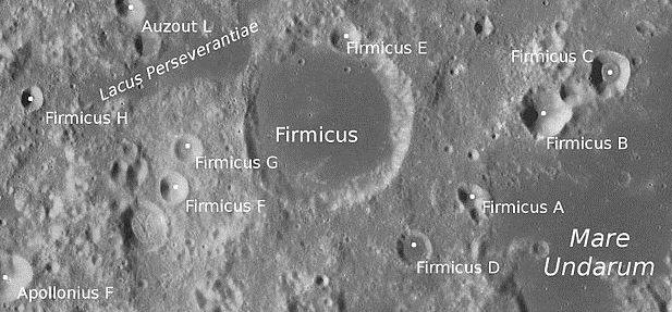 Derivative work from 800px-Firmicus_-_LROC_-_WAC.JPG obtained cropping the region of Firmicus craters.